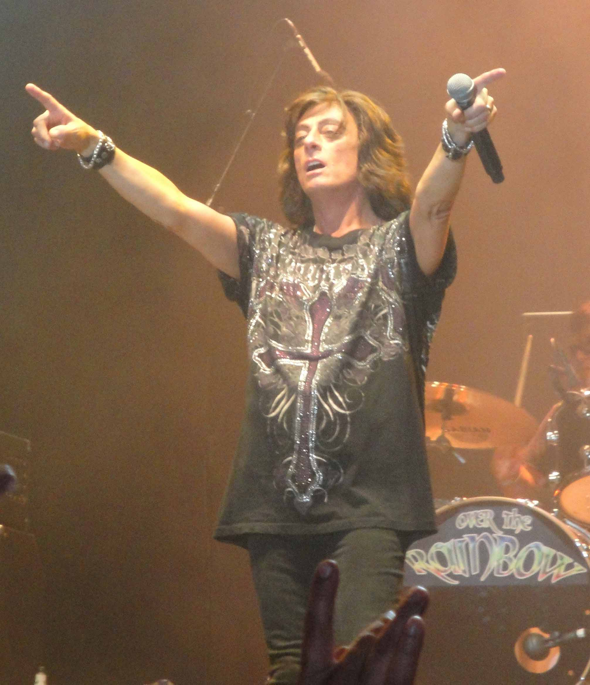 Joe Lynn Turner performing with Over the Rainbow at Rockweekend, Mohed, Sweden